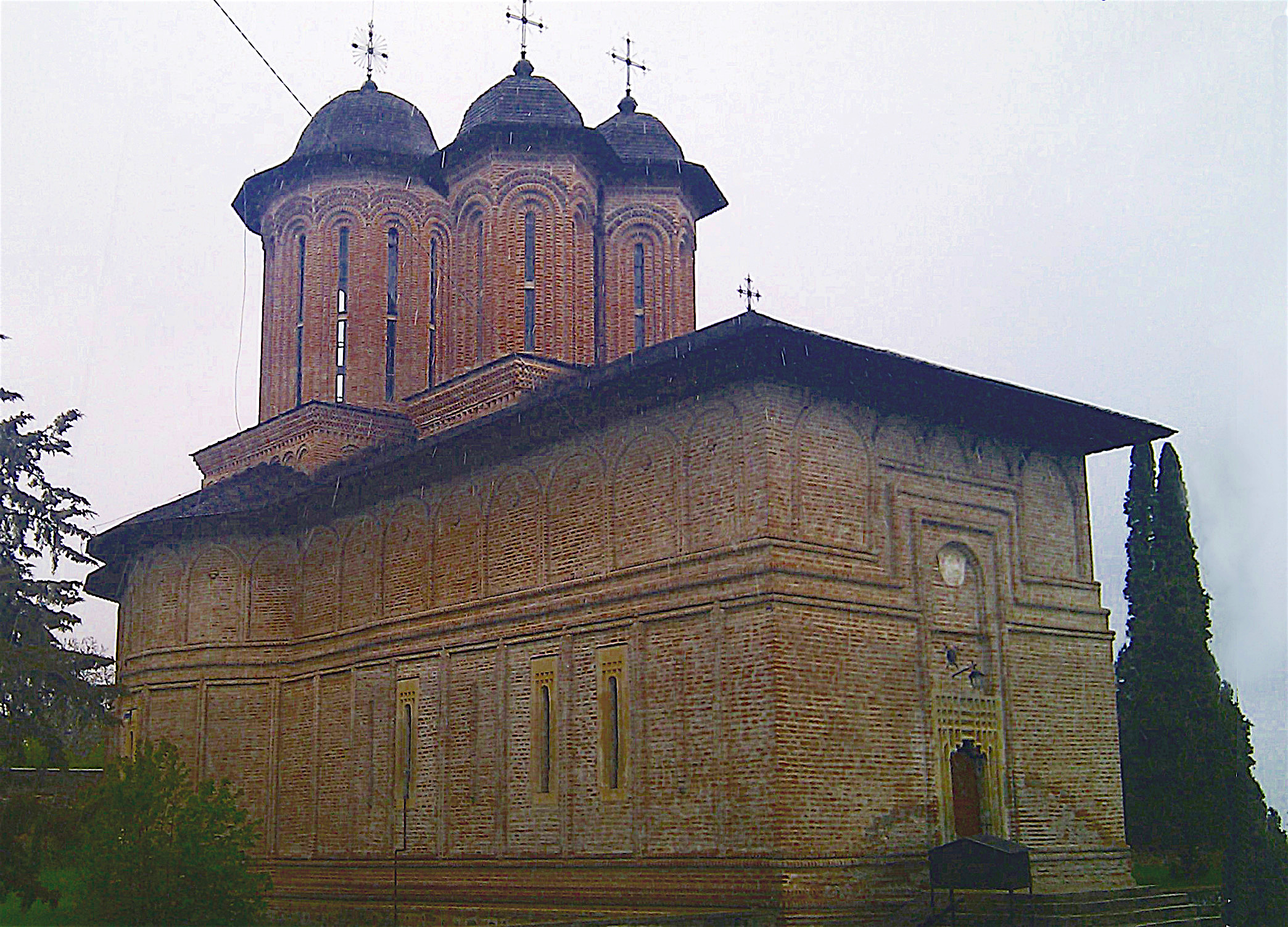 Brebu Monastery